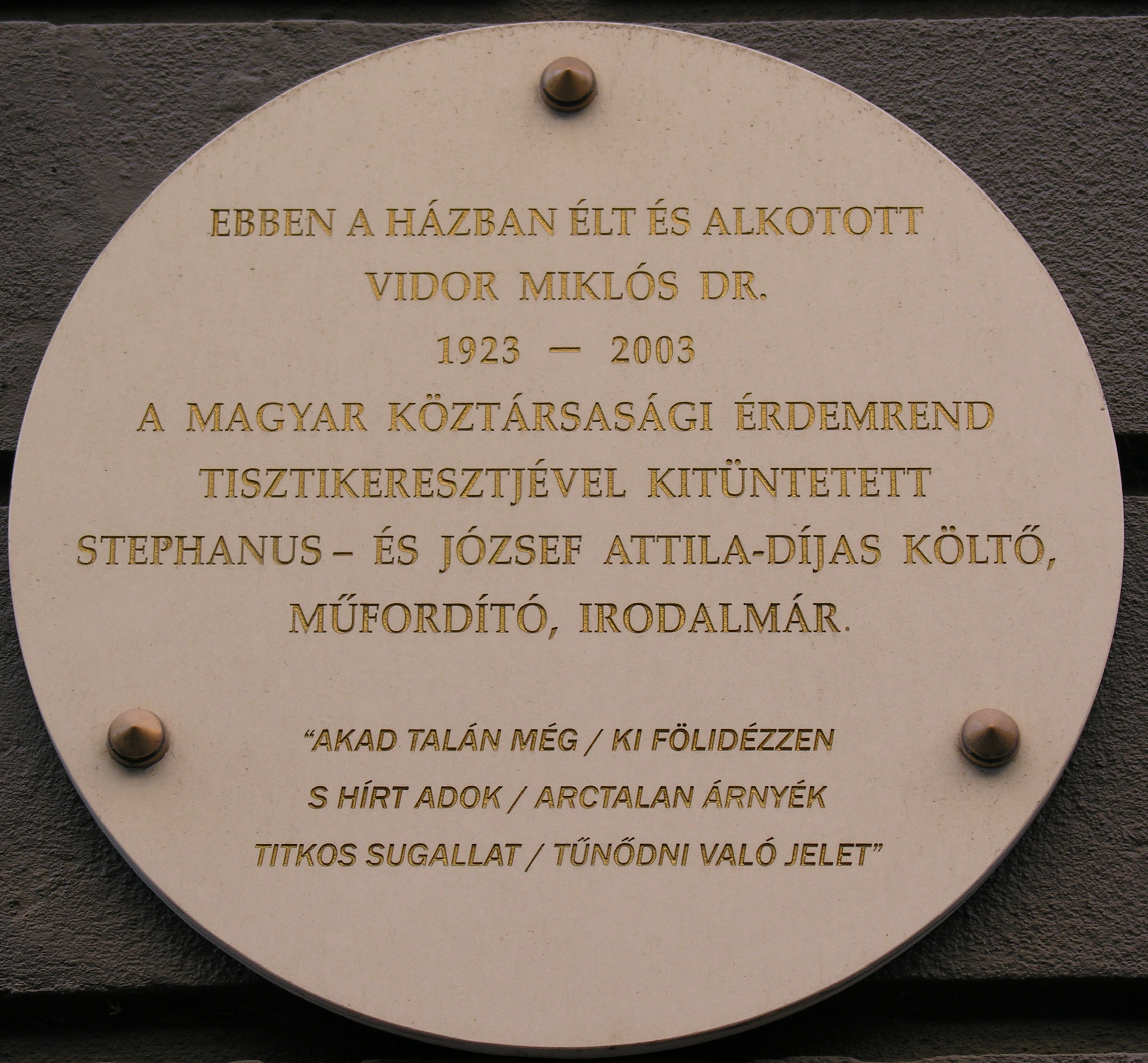 Commemorative plaque of Miklós Vidor in Budapest District VIII, Puskin Street No 17